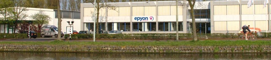 photograph of Epyon HQ